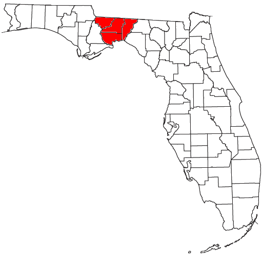 Locator map of the Tallahassee Metropolitan Statistical Area in the eastern part of the Florida Panhandle in the southeastern United States.